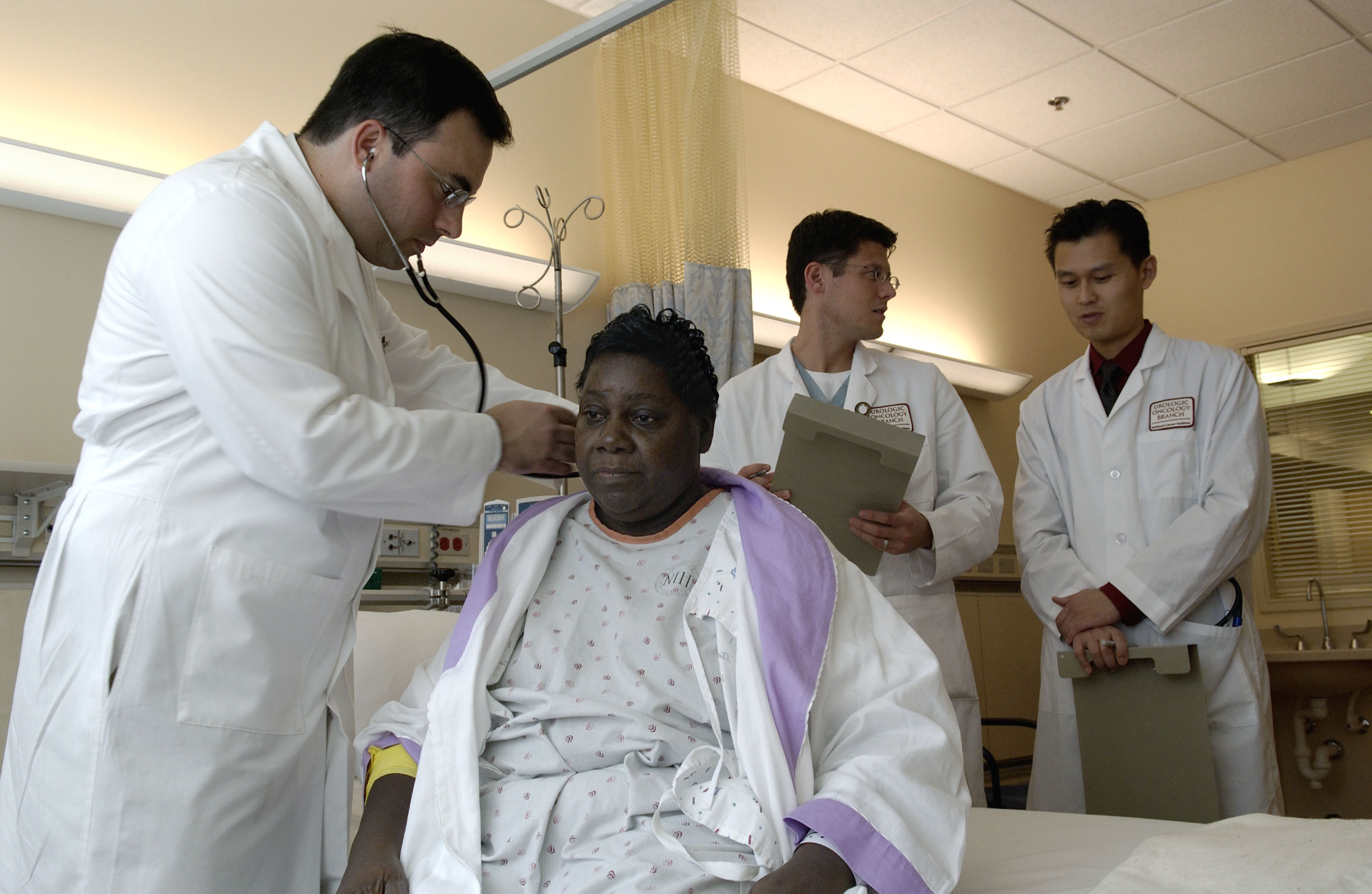 Title Doctor Examines Patient Description Dr. Peter Pinto with the Urologic Oncology Branch at the National Cancer Institute (NCI) examines an African-American adult female patient, while two male attending physicians look on. Topics/Categories Locations -- Clinic/Hospital People -- Adult People -- Health Professional and Patient Type Color, Photo Source National Cancer Institute